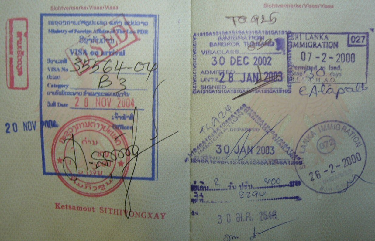 Examples of stamped visa documents, issued by Laos, Thailand and Sri Lanka (from left to right). Note the overstay notice in Thai which includes a fine.